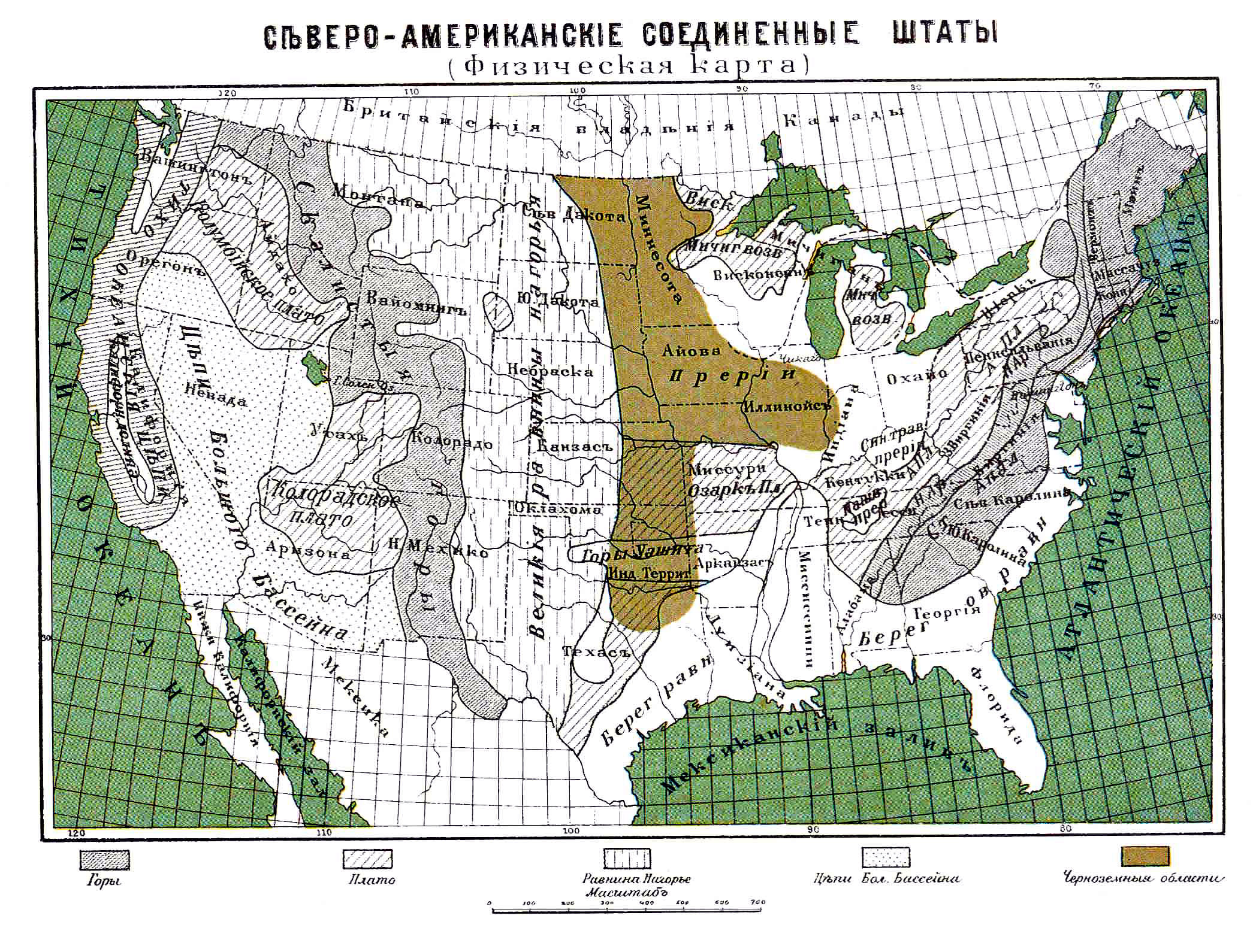 Illustration from Brockhaus and Efron Encyclopedic Dictionary (1890—1907)